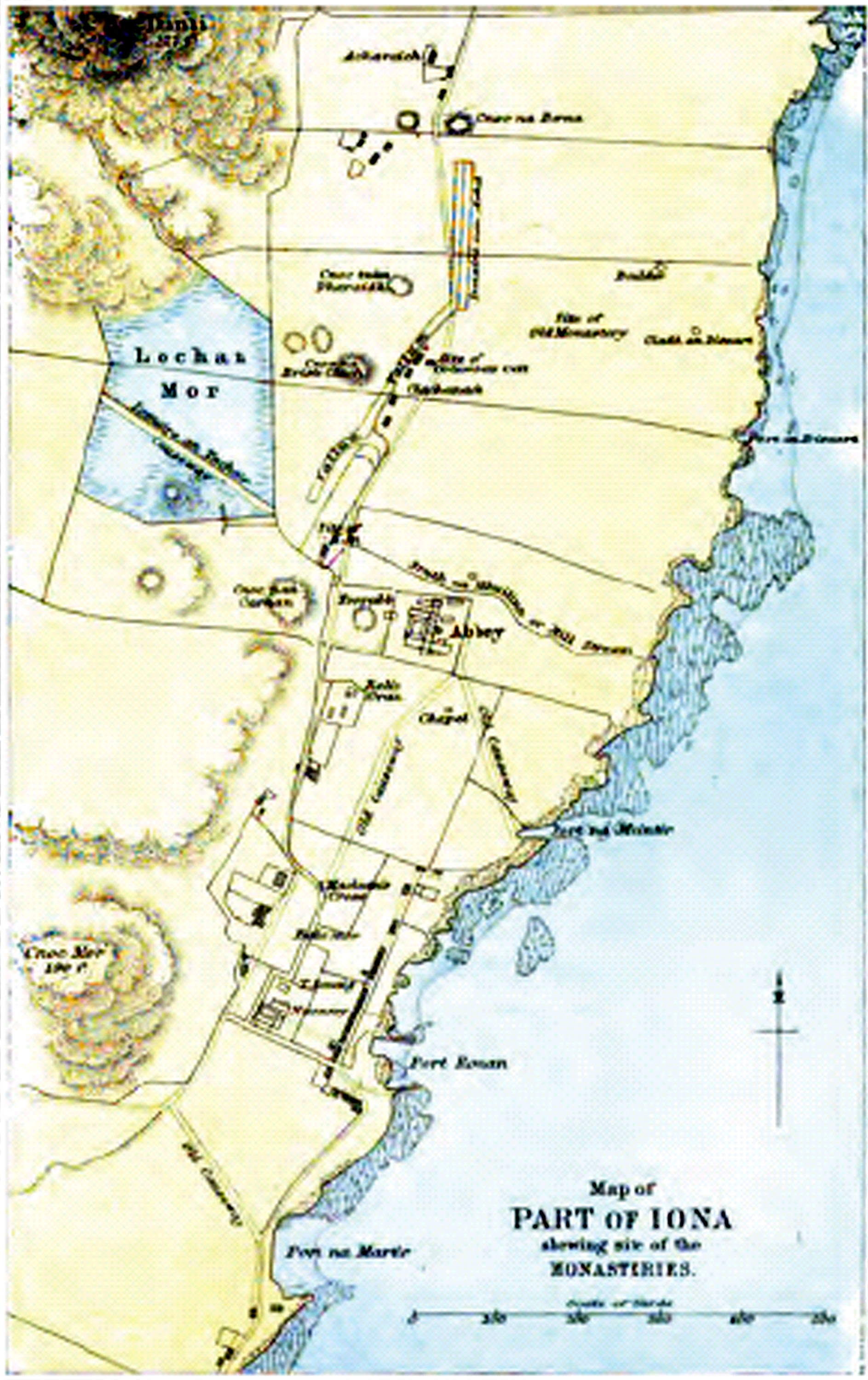 Iona, showing the sites of the monasteries and abbey